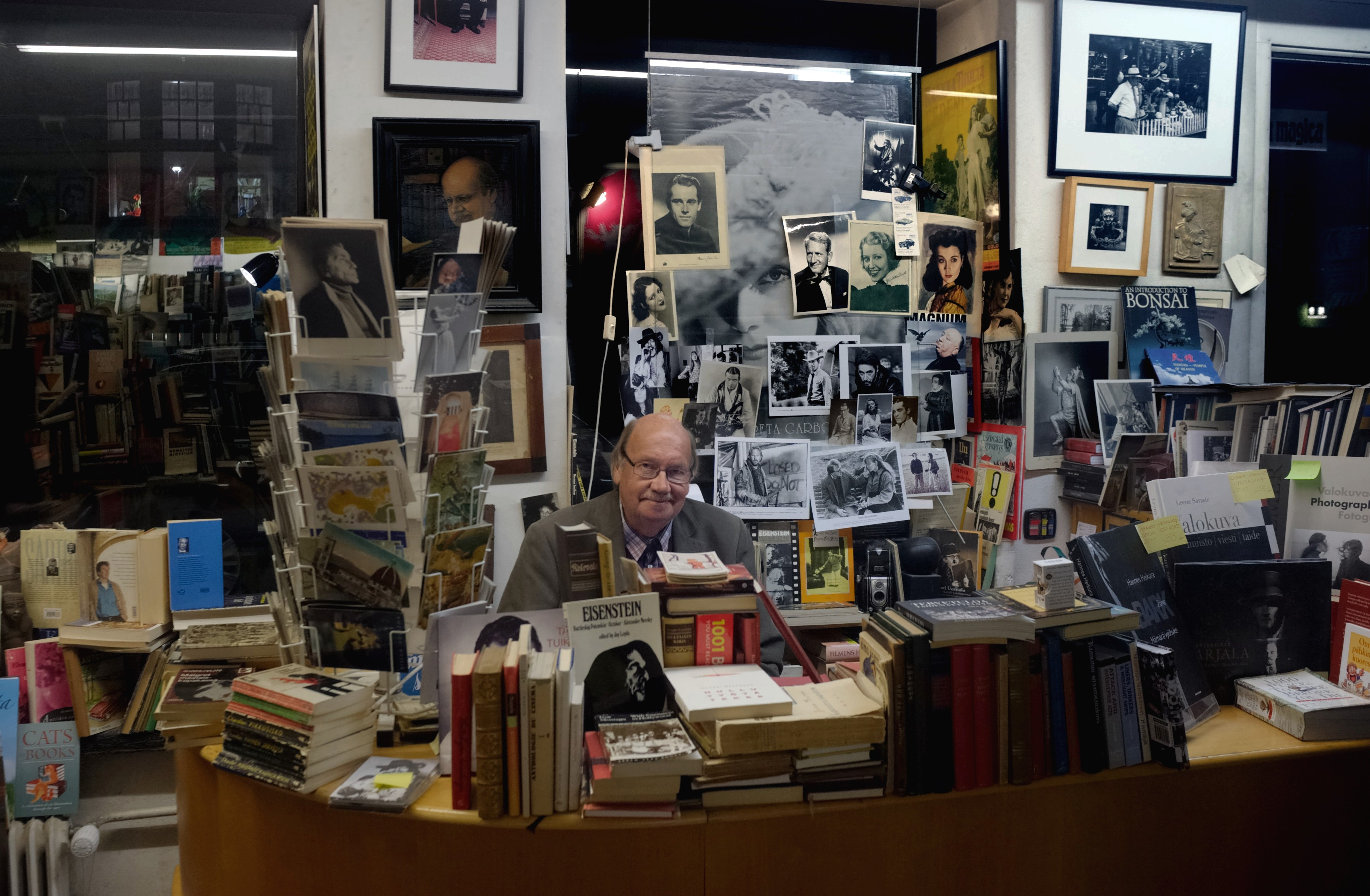 Aapo Pekari in Laterna Magica, Helsinki, Finland